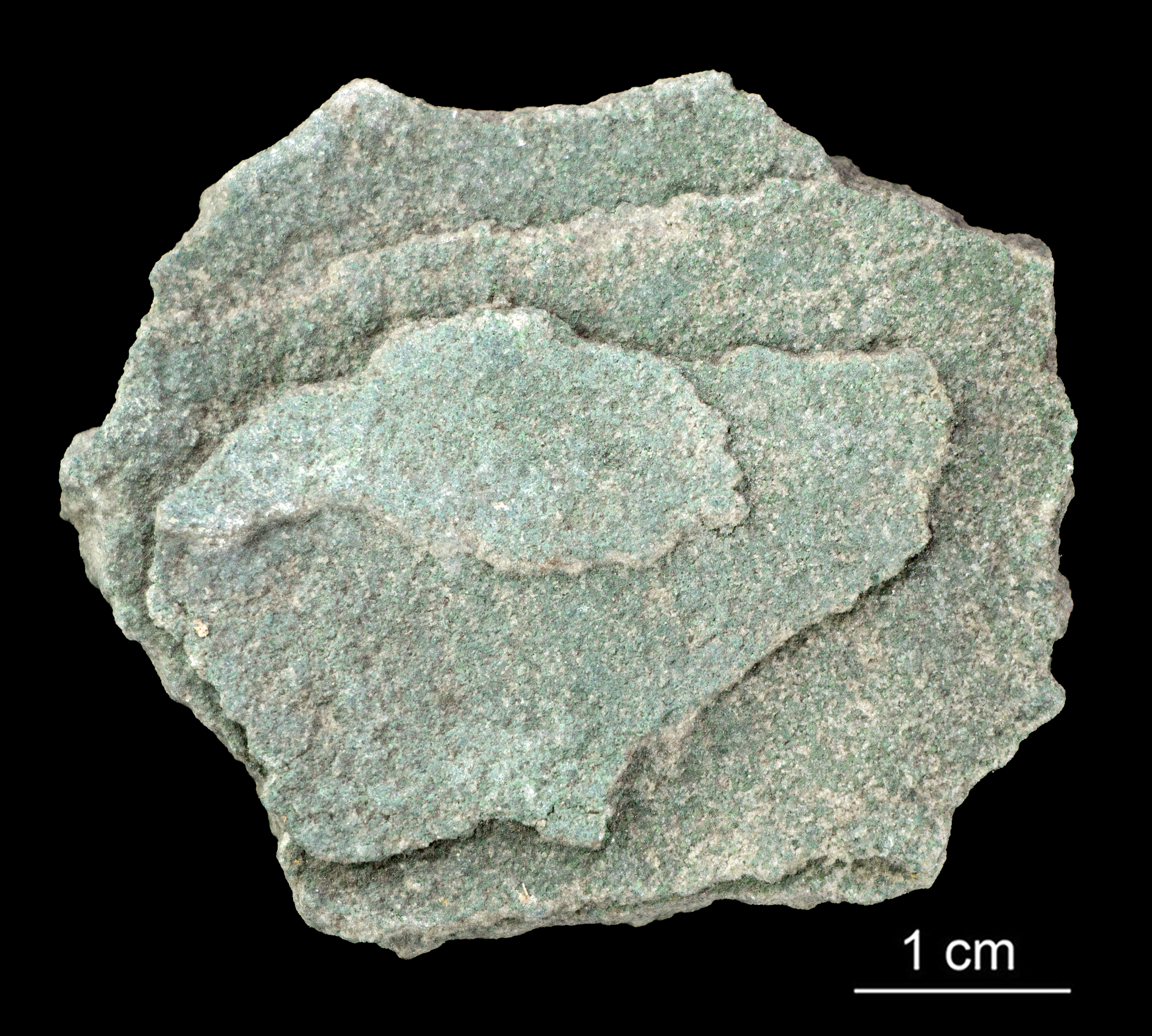 "settekivimid", "glaukoniitliivakivi". More info about this file and about this specimen at